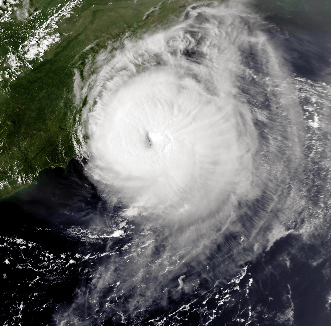 Hurricane Emily at peak intensity on August 23 at 2059 UTC. This image was produced from data from NOAA-11, provided by NOAA. The storm's maximum sustained winds were 115 mph.